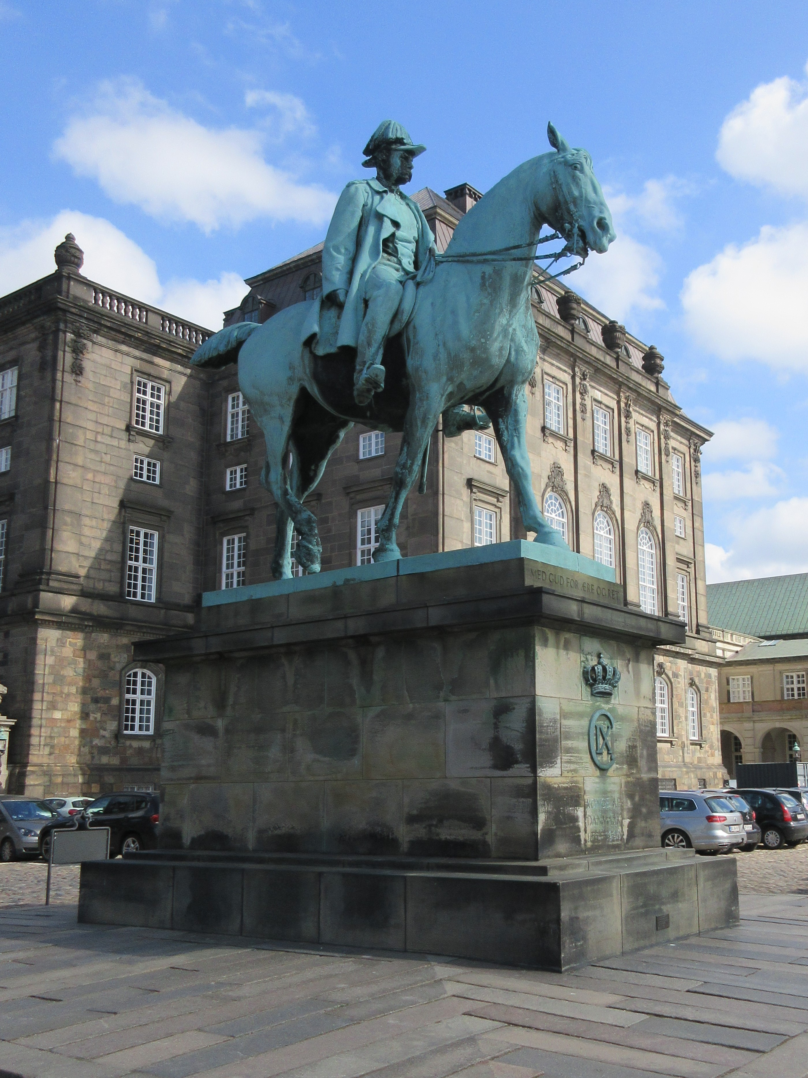 Equestrian statue of Christian IX (Copenhagen)